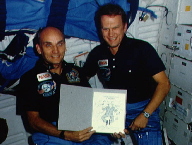 U.S. Senator E.J. (Jake) Garn (left), payload specialist, and astronaut Karol Bobko, mission commander, show cartoon from the Doonesbury strip of Gary Trudeau. The single enlarged panel is autographed by the crewmembers. Both men are seen sitting in the middeck area, with sleep restraints floating behind them.